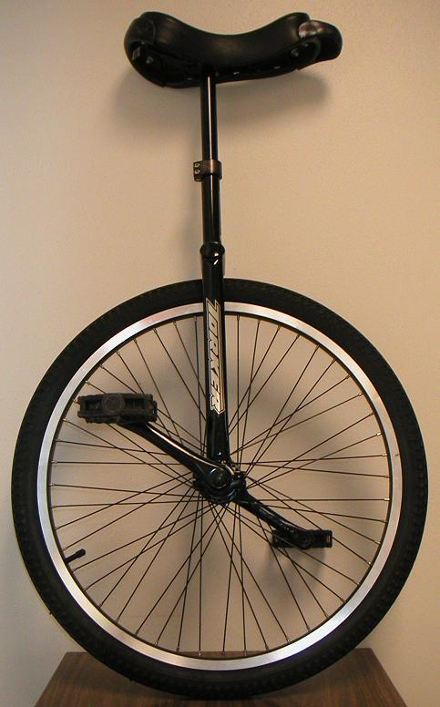 Torker Unicycle taken by Andrew Dressel